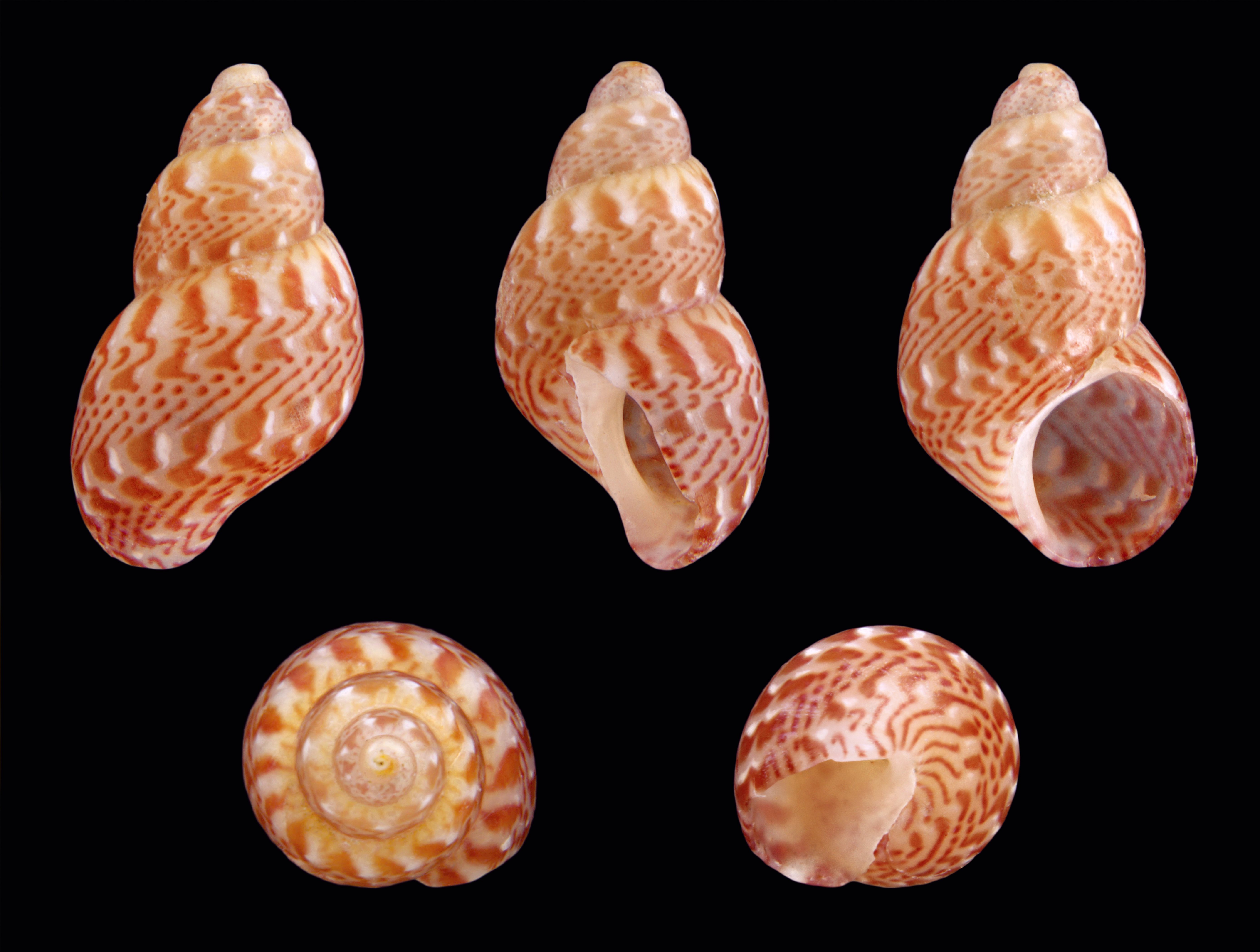 Tricolia pullus pullus (Linné, 1758); Length 0.8 cm; Originating from La Madrague, Presqu’île de Giens, Dept. Var, France; Shell of own collection, therefore not geocoded. Dorsal, lateral (right side), ventral, back, and front view.